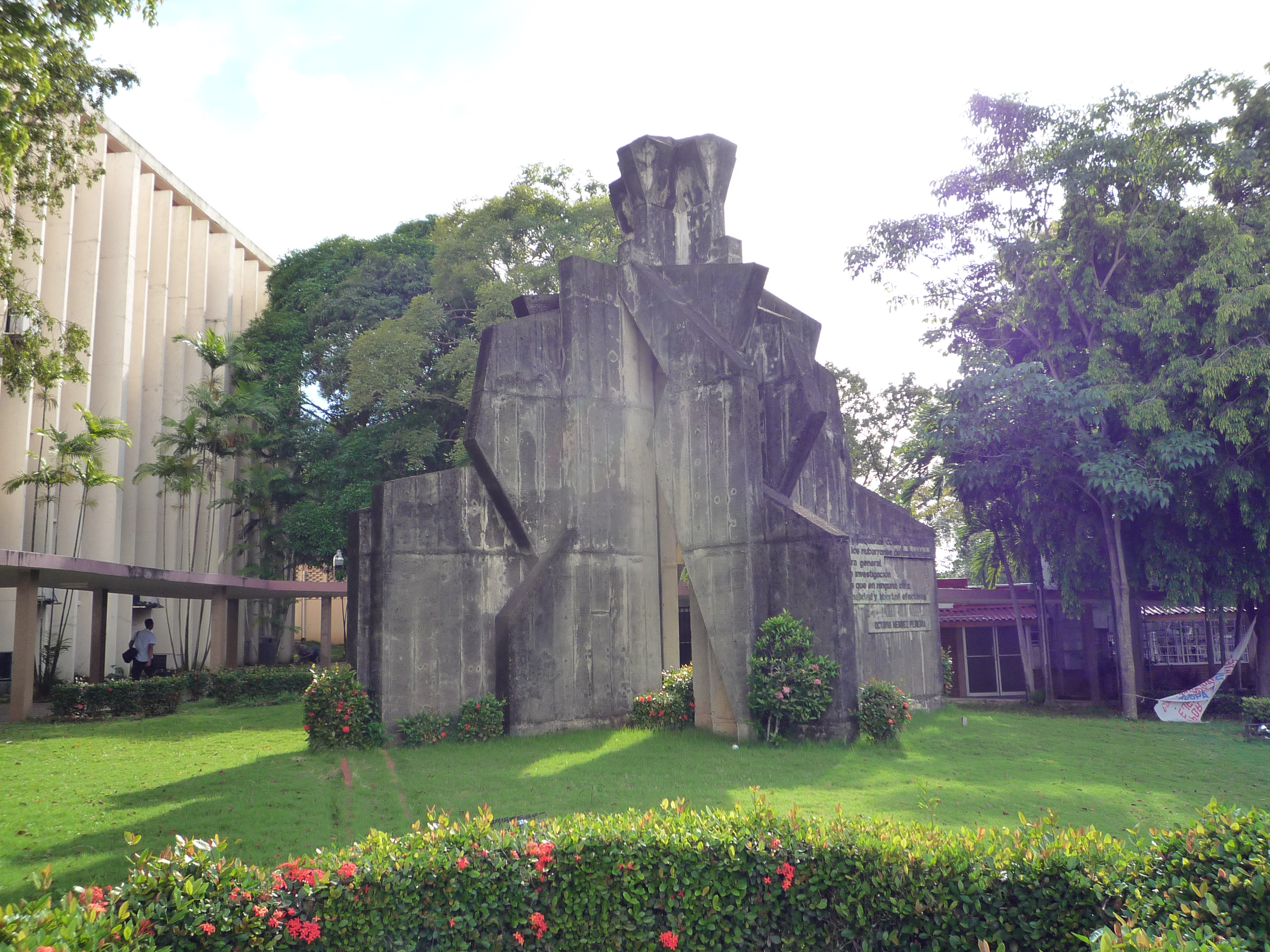 Monument at the University of Panama next to the Library Simon Bolivar.